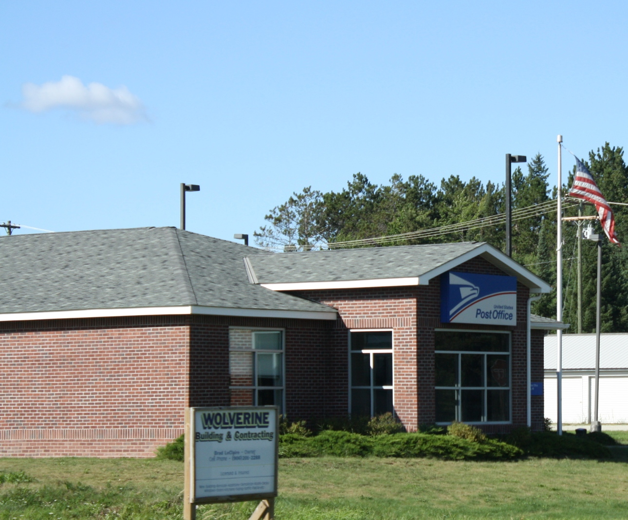 The Post Office in Baraga, Michigan along U.S. Route 41.